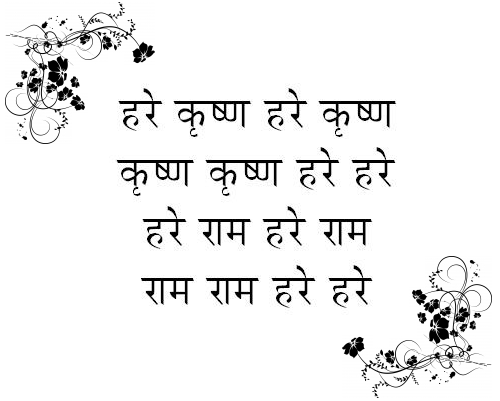 Hare Krshna (Mahamantra) in Devnagri Script